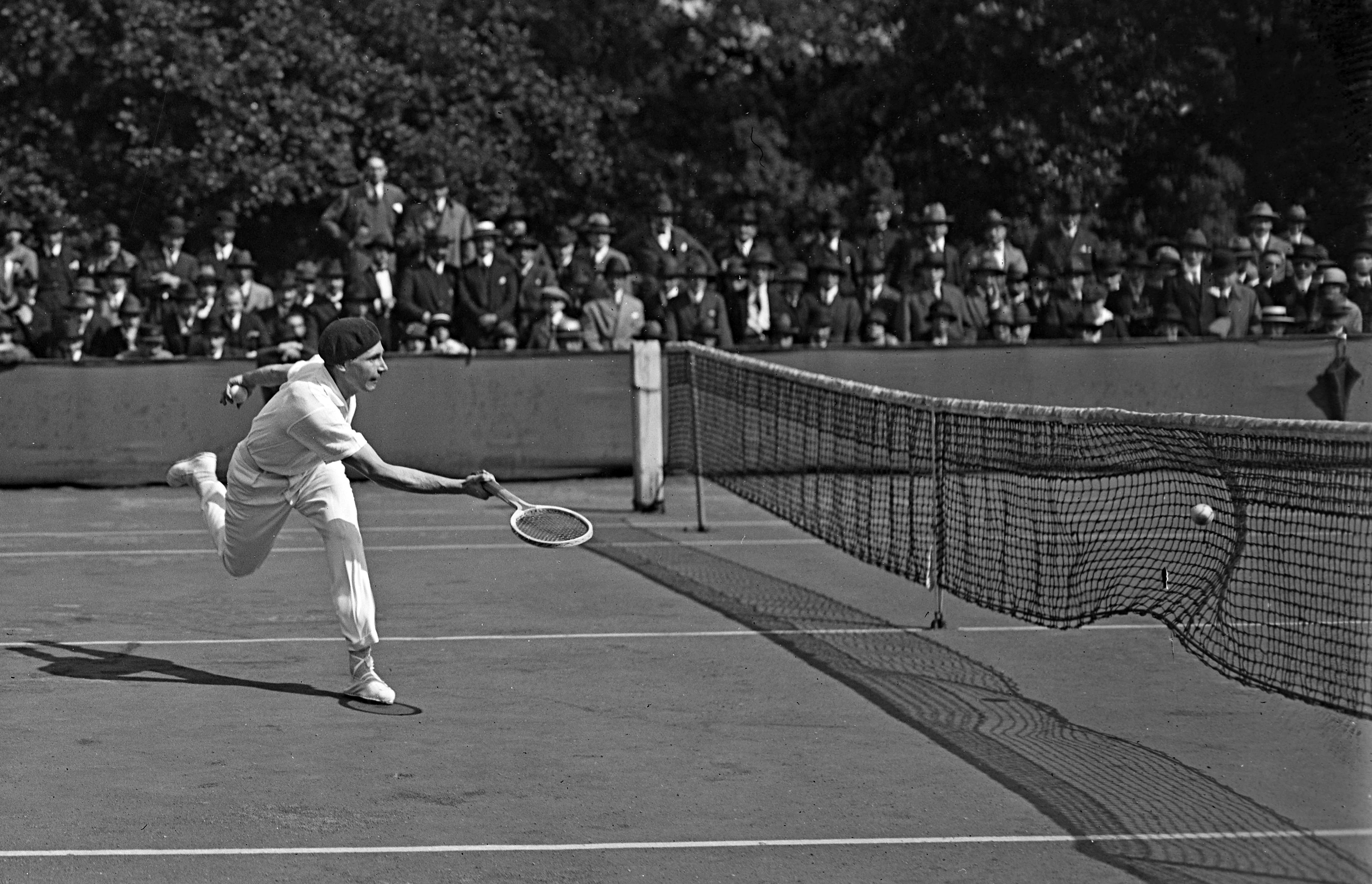 French tennis player Jean Borotra at the 1924 French Championships at the Croix-Catelan in Paris.